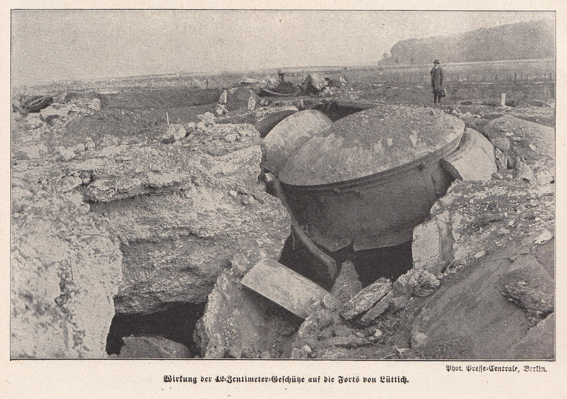 Destruction of defences at Liège - Lüttich 1914